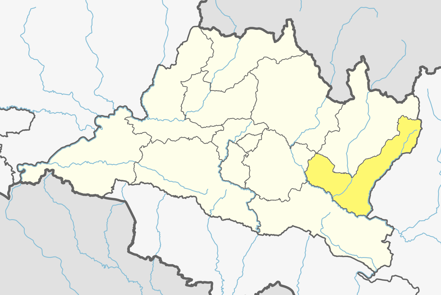 A district of Bagmati Pradesh